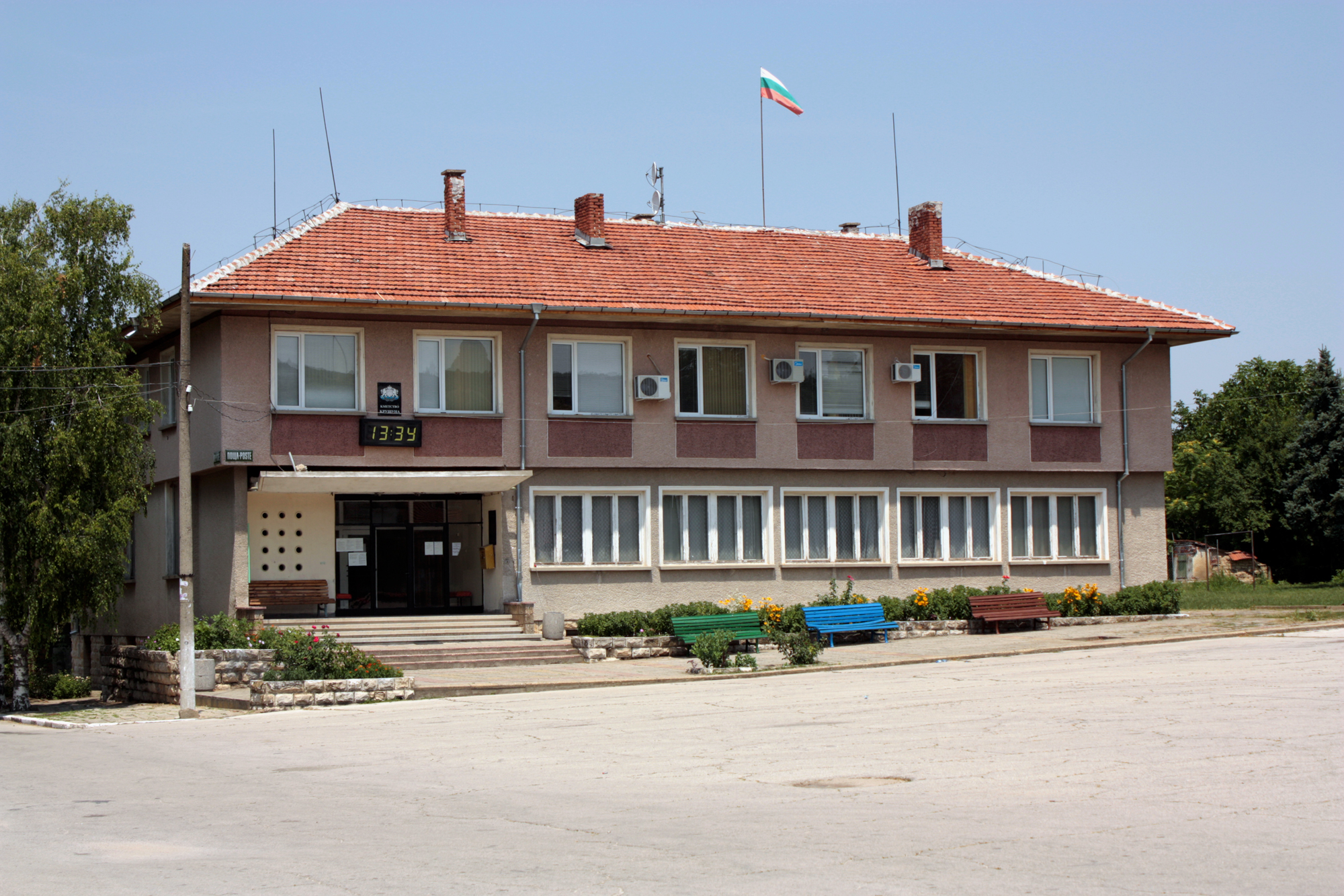 Krushuna municipality office